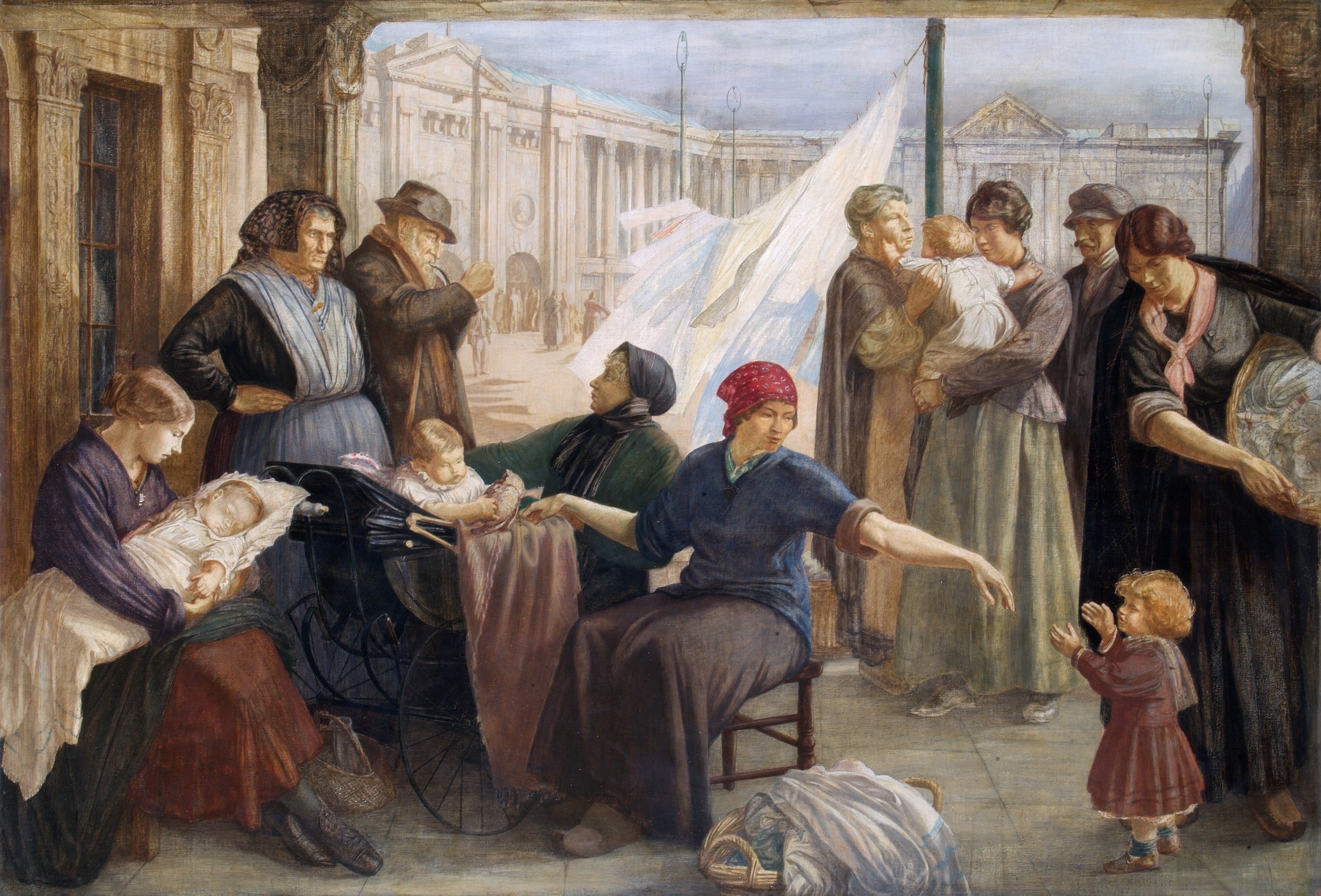 The War Refugees' Camp, Earl's Court 1918 image: In the foreground a group of refugees stand and sit underneath an archway. The group is predominantly made up of women, as well as four young children and two men, one of whom has a white beard and is lighting a pipe. In the background through the archway, washing hanging on a line is visible within a court bordered by some of the grand-looking buildings of Earl's Court.